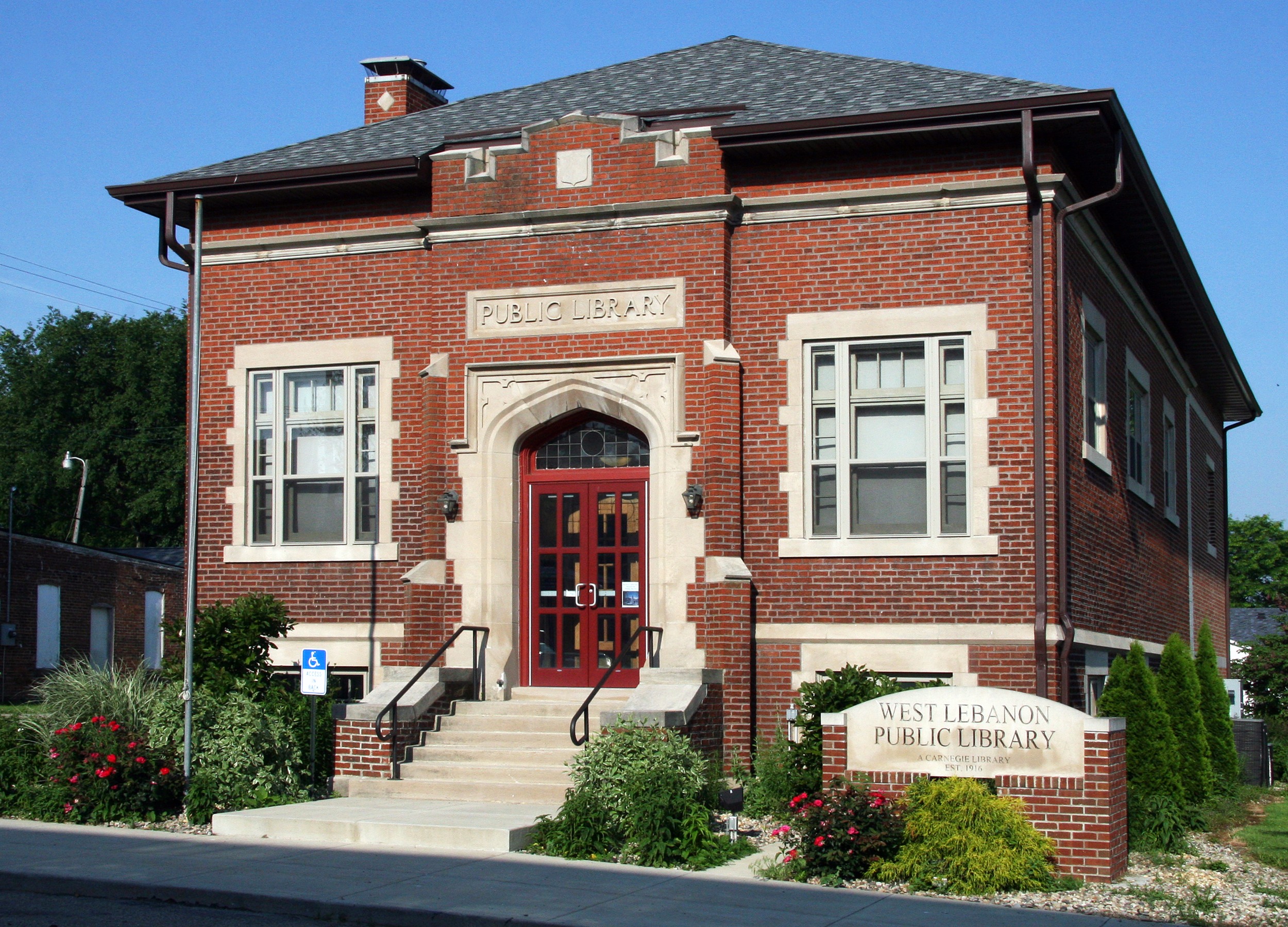 The West Lebanon Public Library, a Carnegie Library in the town of West Lebanon, Indiana. Photo looks west-southwest across Main Street (Indiana State Road 263) near the intersection with North Street.